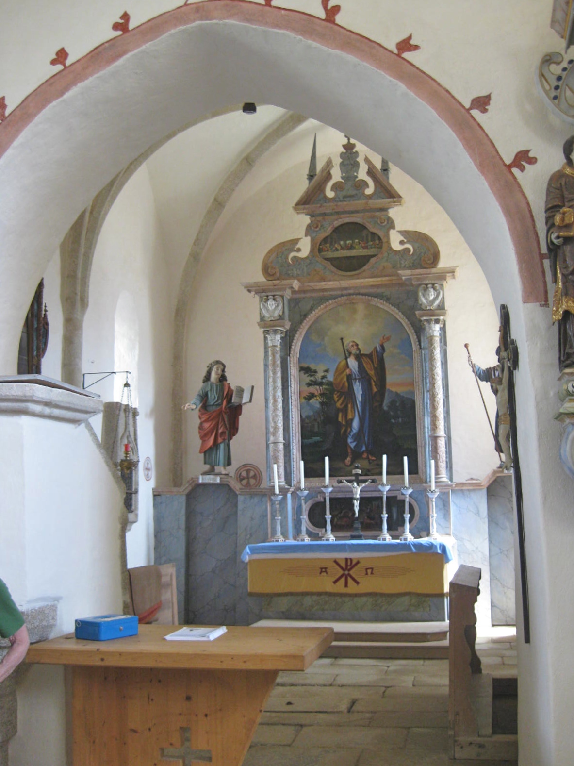 St Jacob Kleinzwettl Nave altar/Hochaltar 1615, with later painting